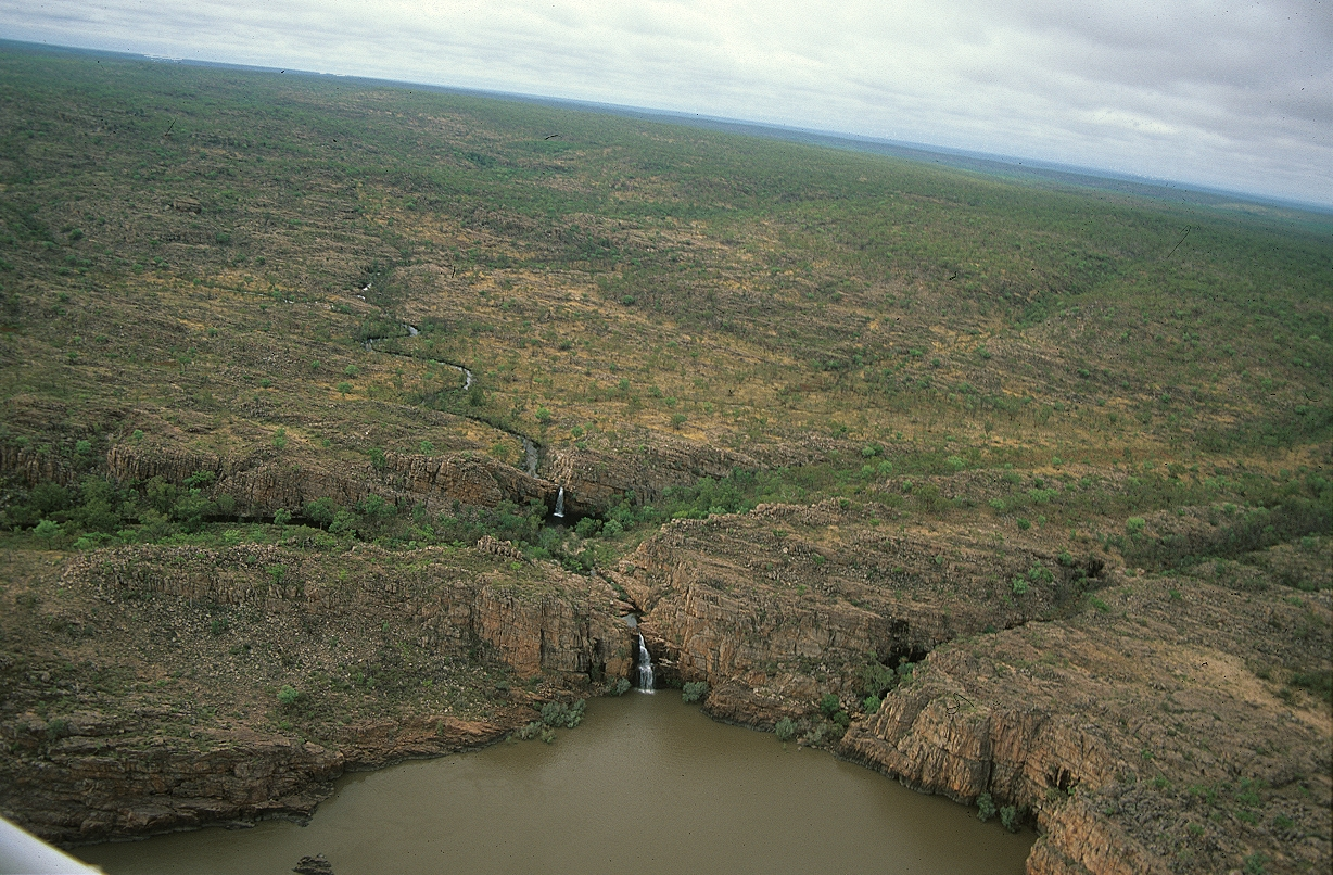 Katherine Gorge - bird´s-eye-view